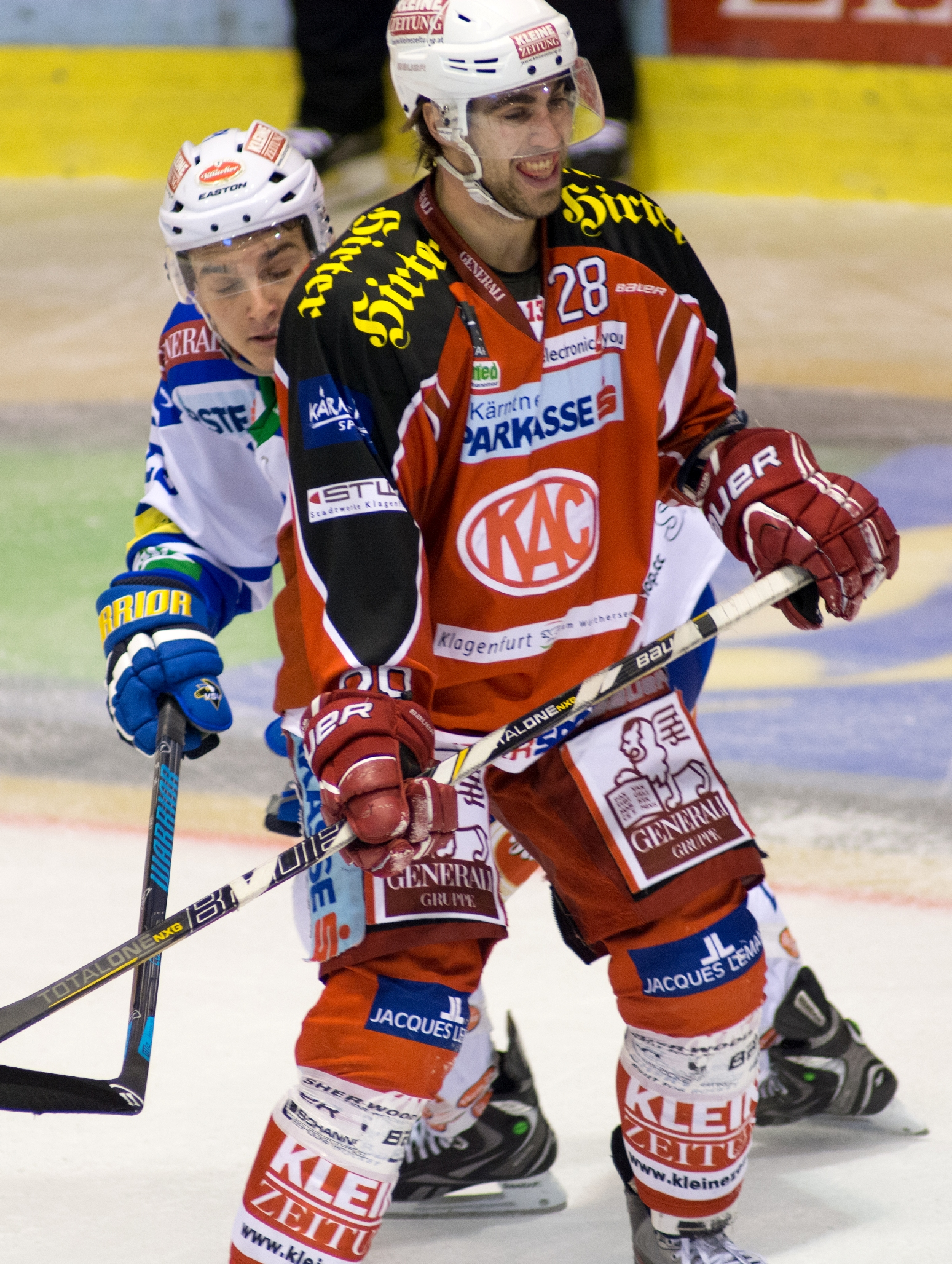 26.12.2013,Messehalle 5 Celovec, AUT, EBEL, 58. Runde, EC KAC vs. EC VSV, im Bild // frostworx Pictures © 2013, PhotoCredit: frostworx / Alex Micheu